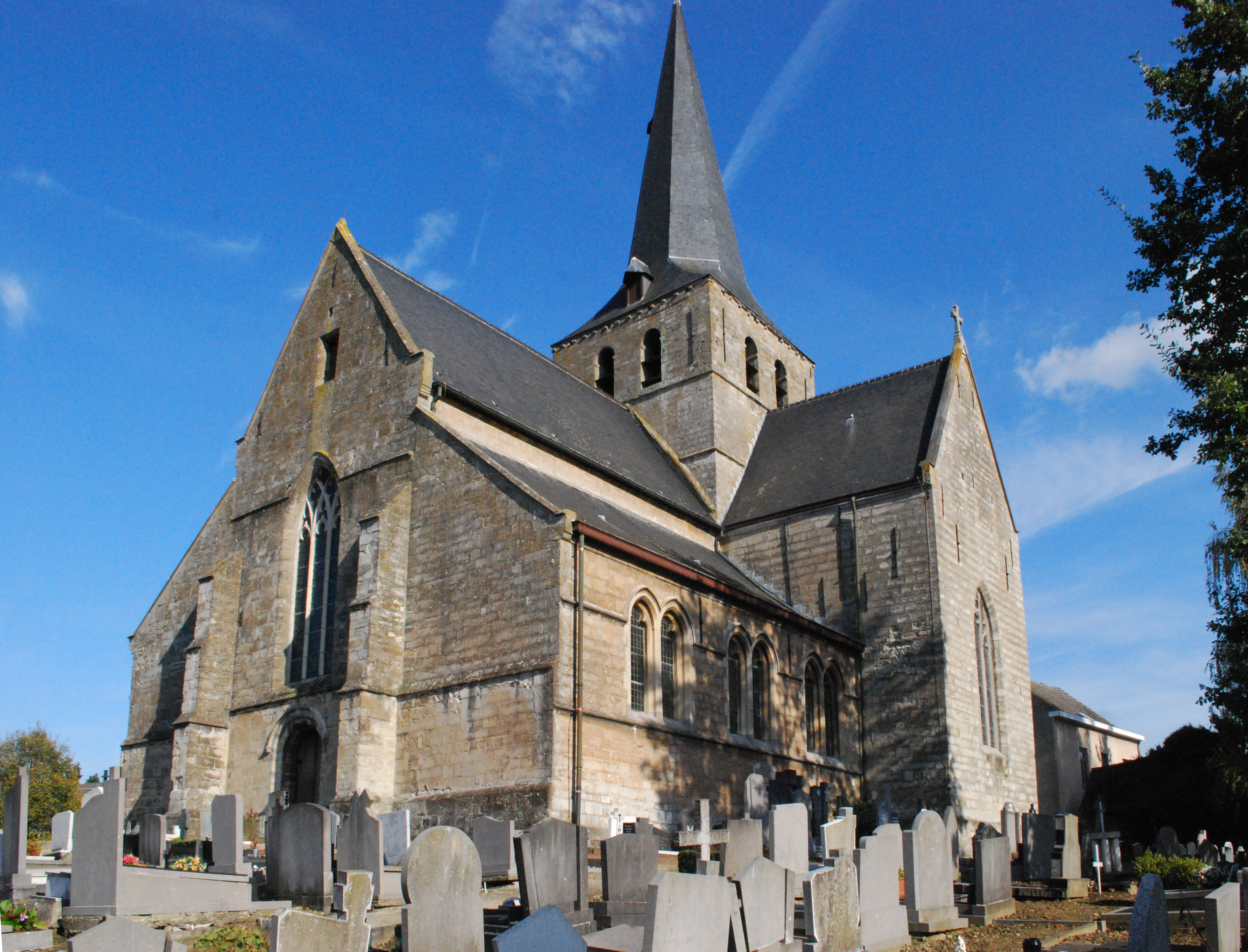 Southeast view of the church of Saint Walburga and part of the surrounding graveyard at the village of Meldert, commune of Aalst, Belgium. Nikon D60 f=18mm f/16 ISO 1600 1/1000s. Perspective & framing corrected using GIMP 2.6.11.